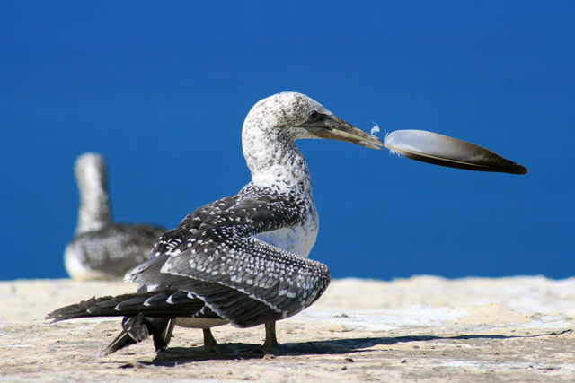 A young Australasian Gannet with a feather in its beak, Cape Kidnappers, New Zealand